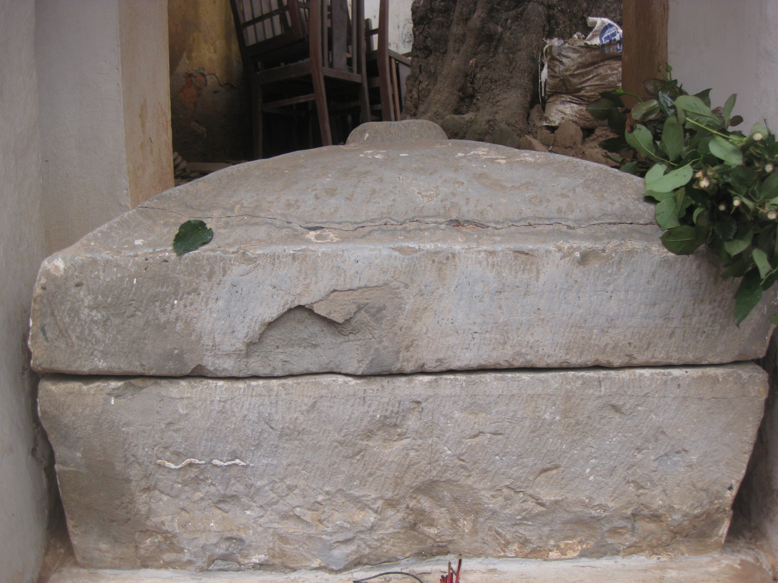 fghtf